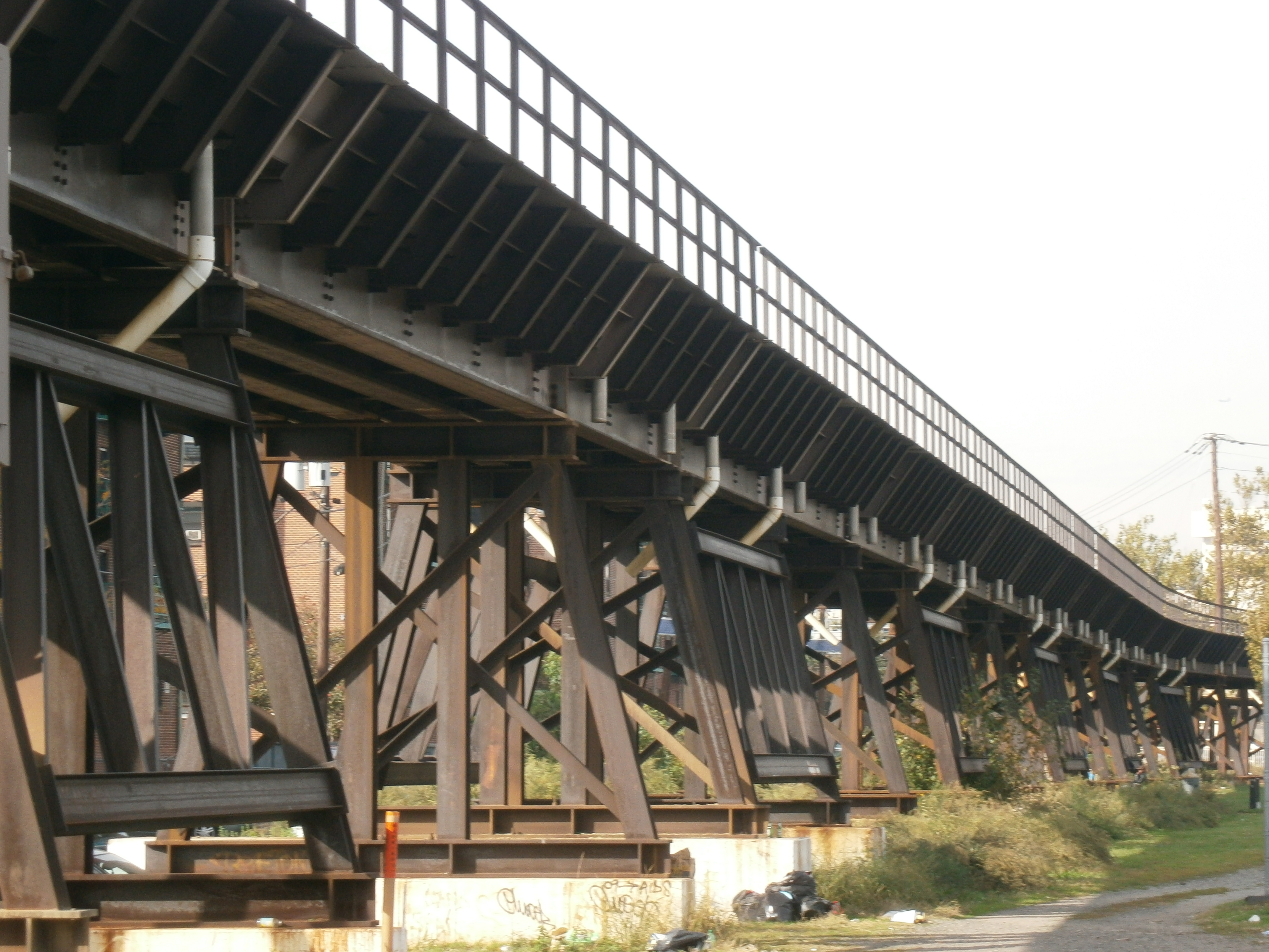 National Docks Secondary freight line travels across Lower Jersey City between Lehigh Valley Bridge and Long Dock Tunnel seen here at Grand Street